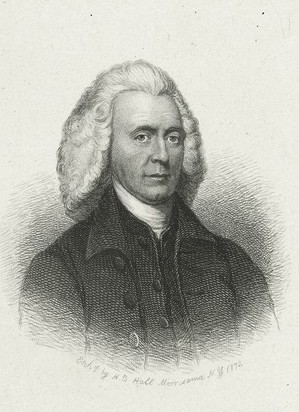 Crop of File:Edmund Pendleton 1872.jpeg